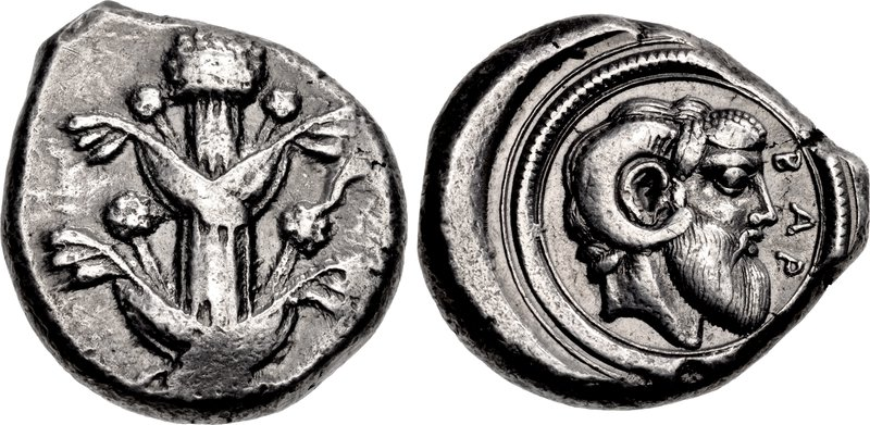 KYRENAICA, Barke. Circa 475-435 BC. AR Tetradrachm (24mm, 17.26 g, 10h). Silphion plant / Head of Zeus Ammon right; BAR to right; all in thick circular border within shallow incuse circle. SNG Copenhagen –; BMC 7 = Weber 8175 (same dies); Hunterian 1 (same obv. die); Traité III 1949, pl. CCLXIX, 8 (same dies); Münzen und Medaillen GmbH 38, lot 118 (same dies). Good VF, toned. Very rare, only one example in CoinArchives.